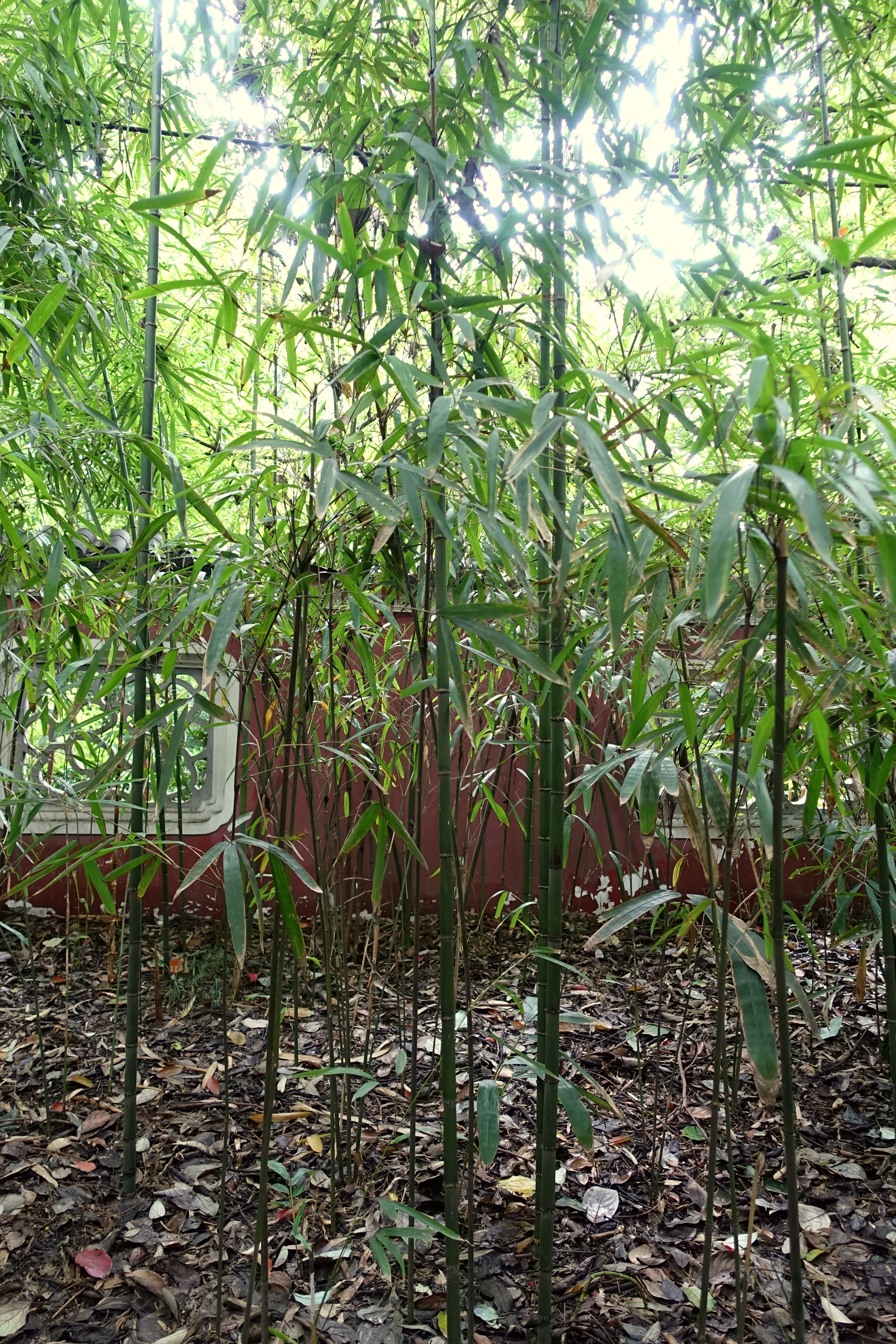 Bamboo specimen in Wangjianglou Park (望江楼公园) - Chengdu, Sichuan, China.